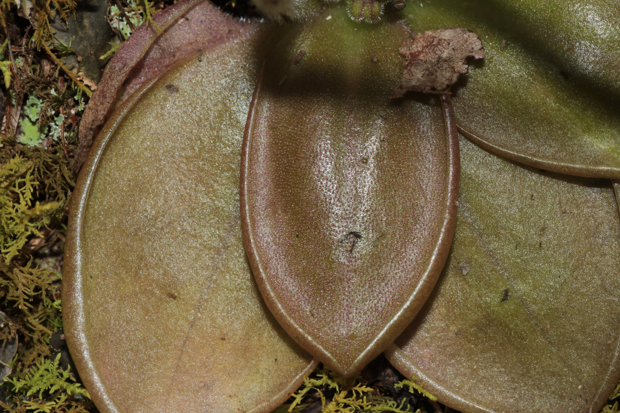 Mexico, area of Santa Catarina Lachatao